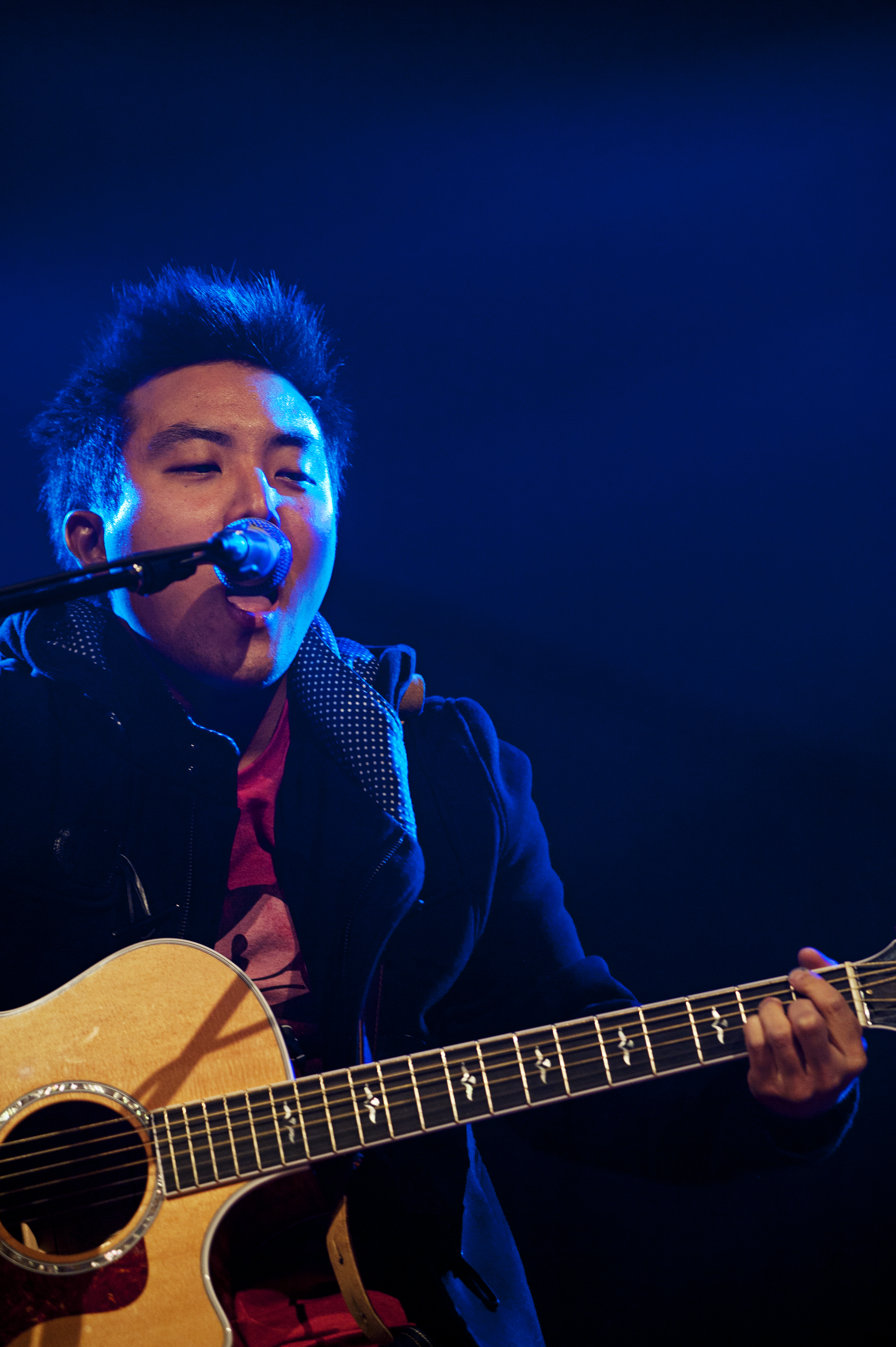 David Choi in Australia